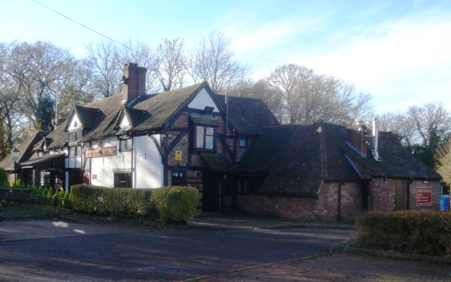 Ifield Mill House: a large 16th-century timber-framed building associated with Ifield Water Mill (q.v.), now a pub. Listed at Grade II by English Heritage (ref #299491)